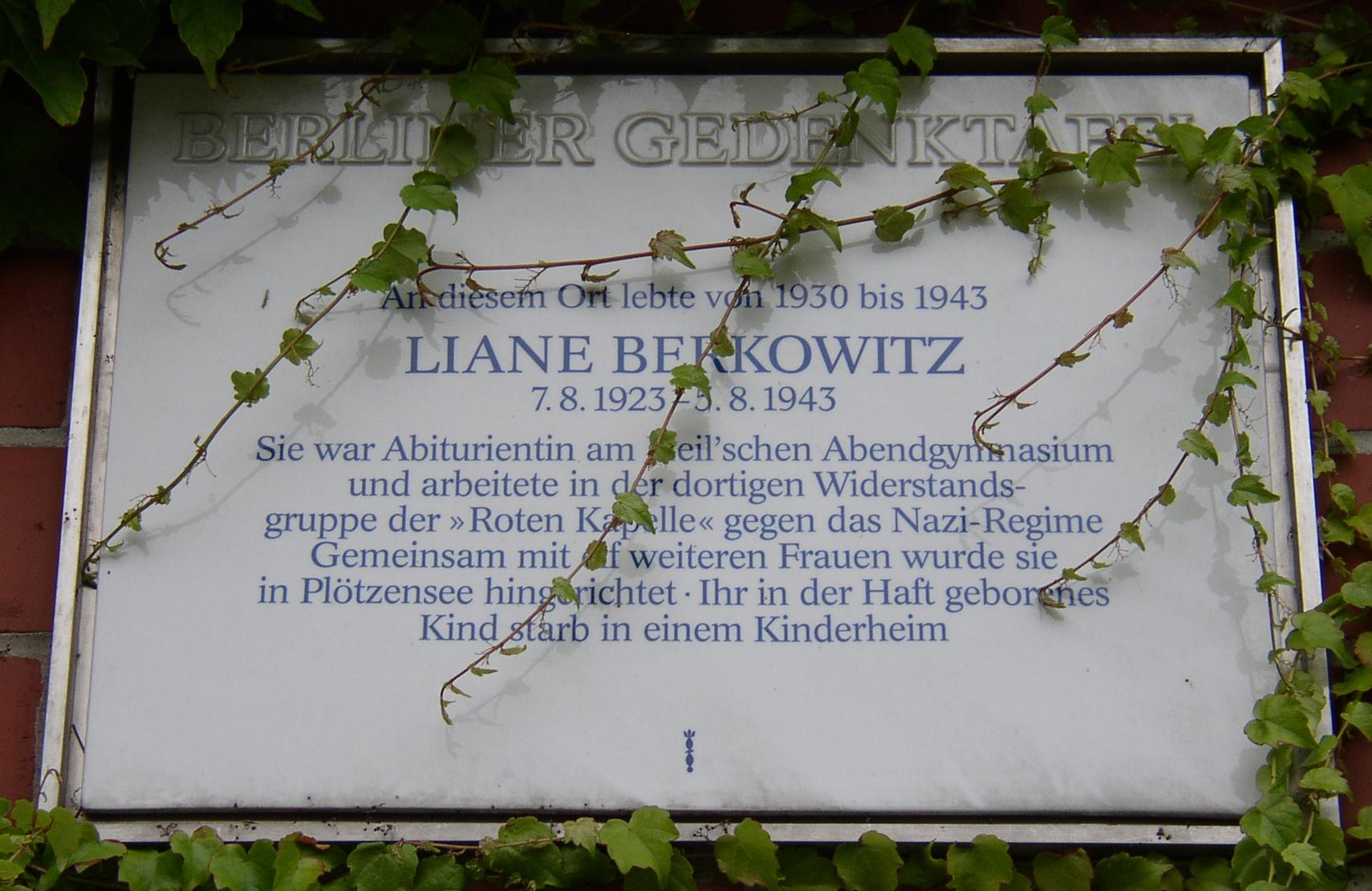 Berlin memorial plaque for Liane Berkowitz in Berlin-Schöneberg, Germany